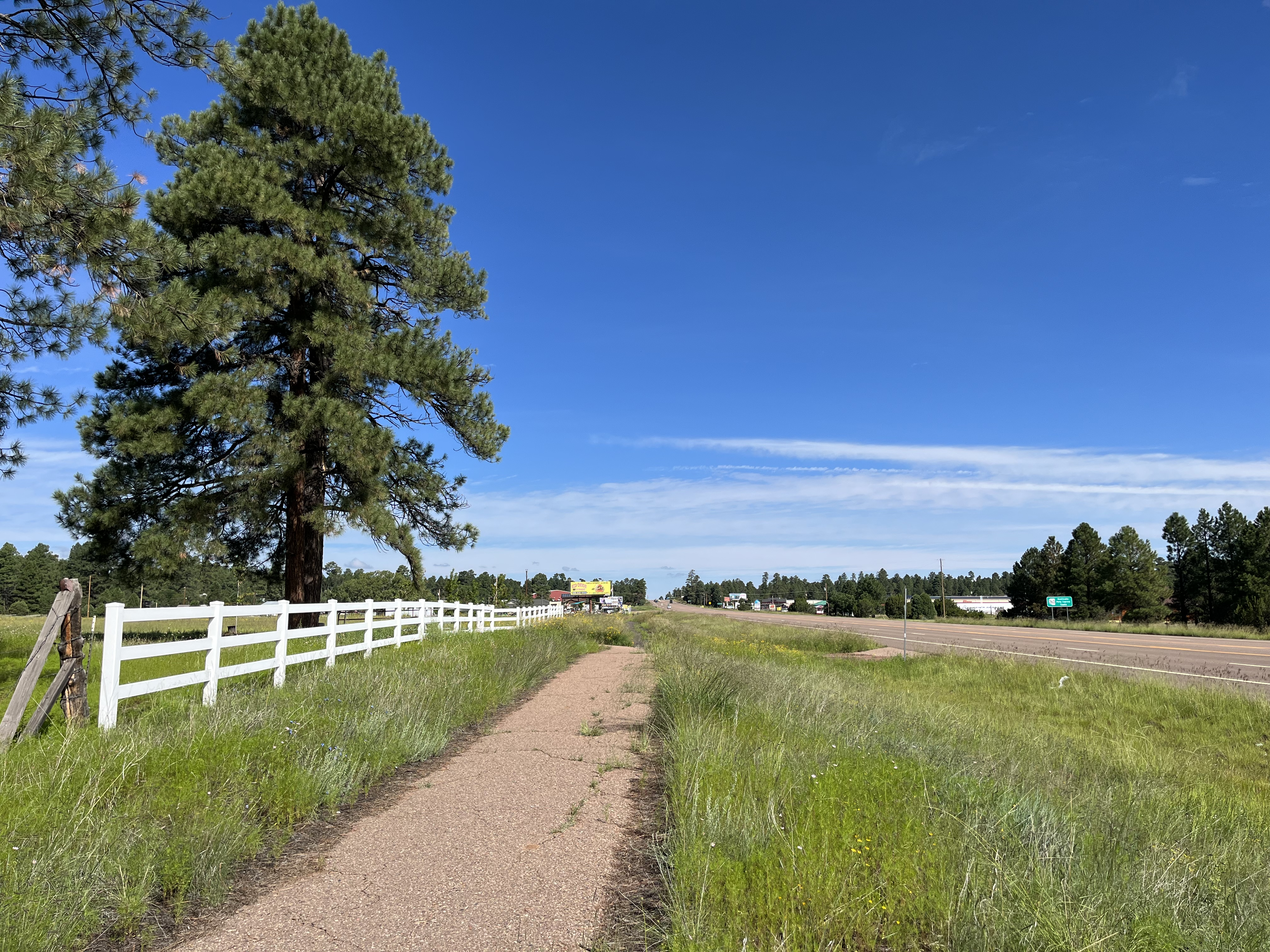 Central Heber-Overgaard AZ as viewed from SR260.